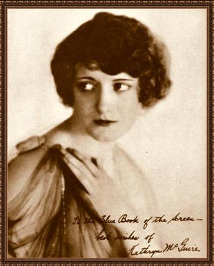 Publicity photo of Kathryn McGuire from The Blue Book of the Screen by Ruth Wing, editor